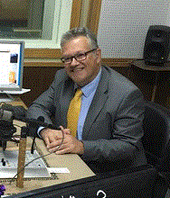 World of Info, episode featuring Martin Bommas and Eman Khalifa, 2016.